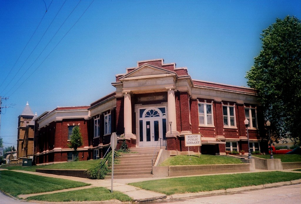 Macon Public Library. Located in Macon, Missouri. Photo taken 8 October 2008. Photo courtesy of Catfilnoir a.k.a. Carol Baier via Flickr.